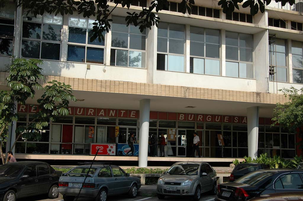 Restaurante - UFRJ